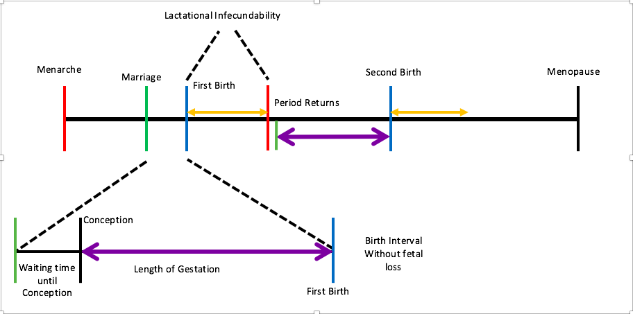 This image portrays a woman's fertility starting with menarche and continuing through eventual conception, various births, and finally menopause.